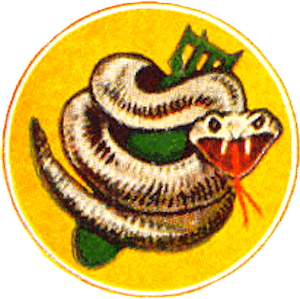 Emblem of the 317th Bombardment Squadron (World War II)